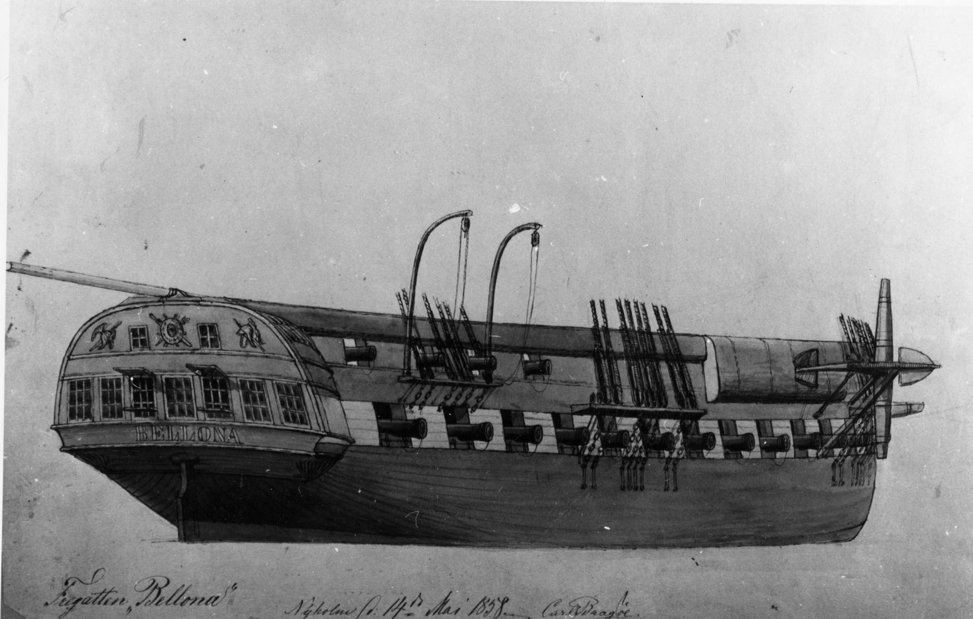 Drawing of HDNS Bellona